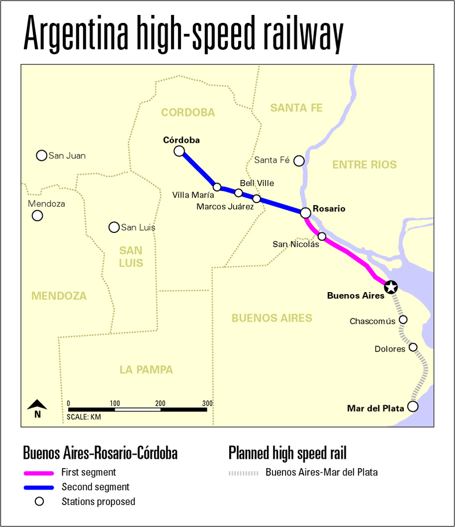 Map of Buenos Aires-Rosario-Córdoba high-speed railway. Schnellfahrstrecke - Buenos Aires-Rosario-Córdoba high-speed railway map 4.